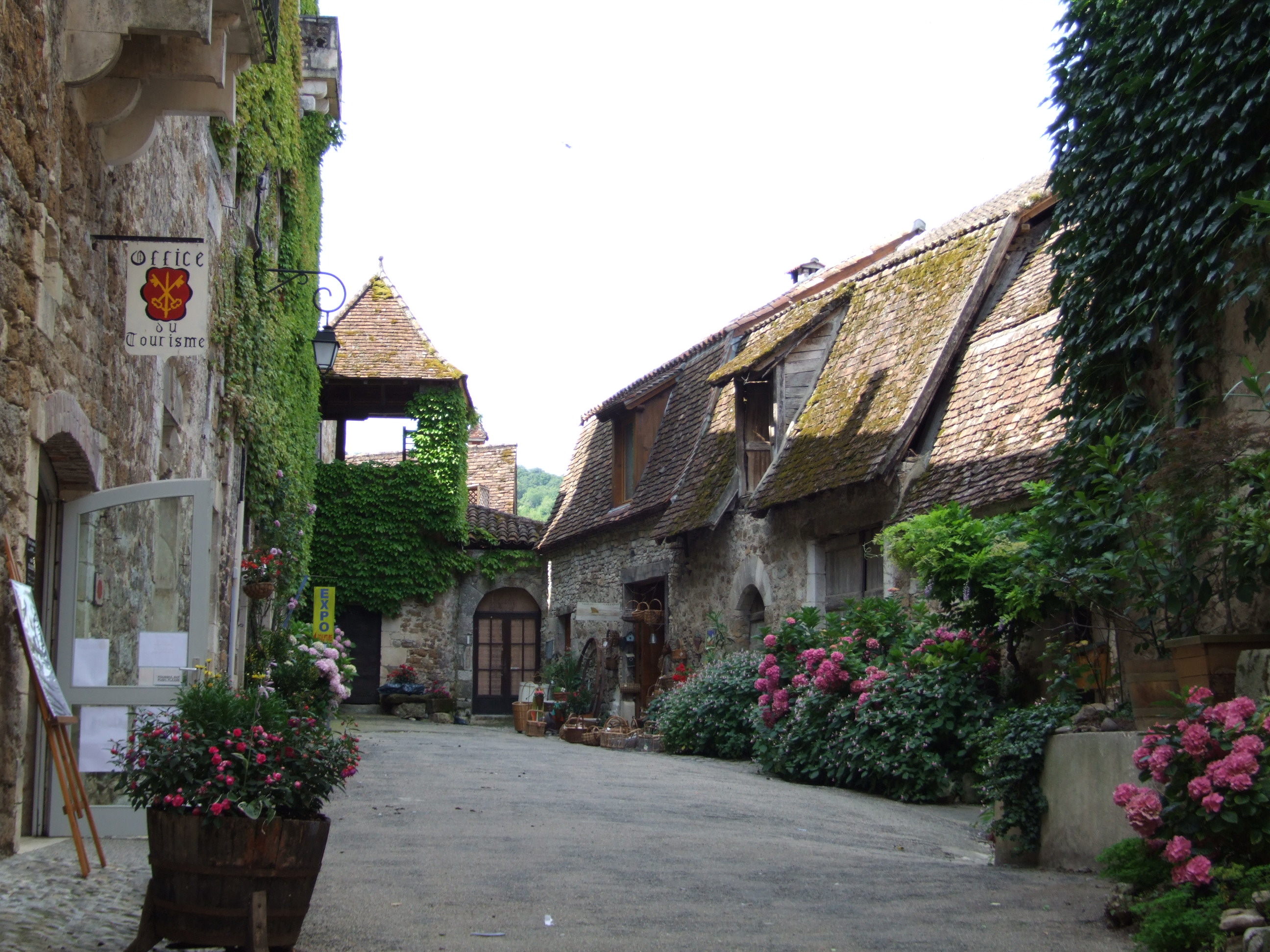 Carennac, Lot, FRANCE